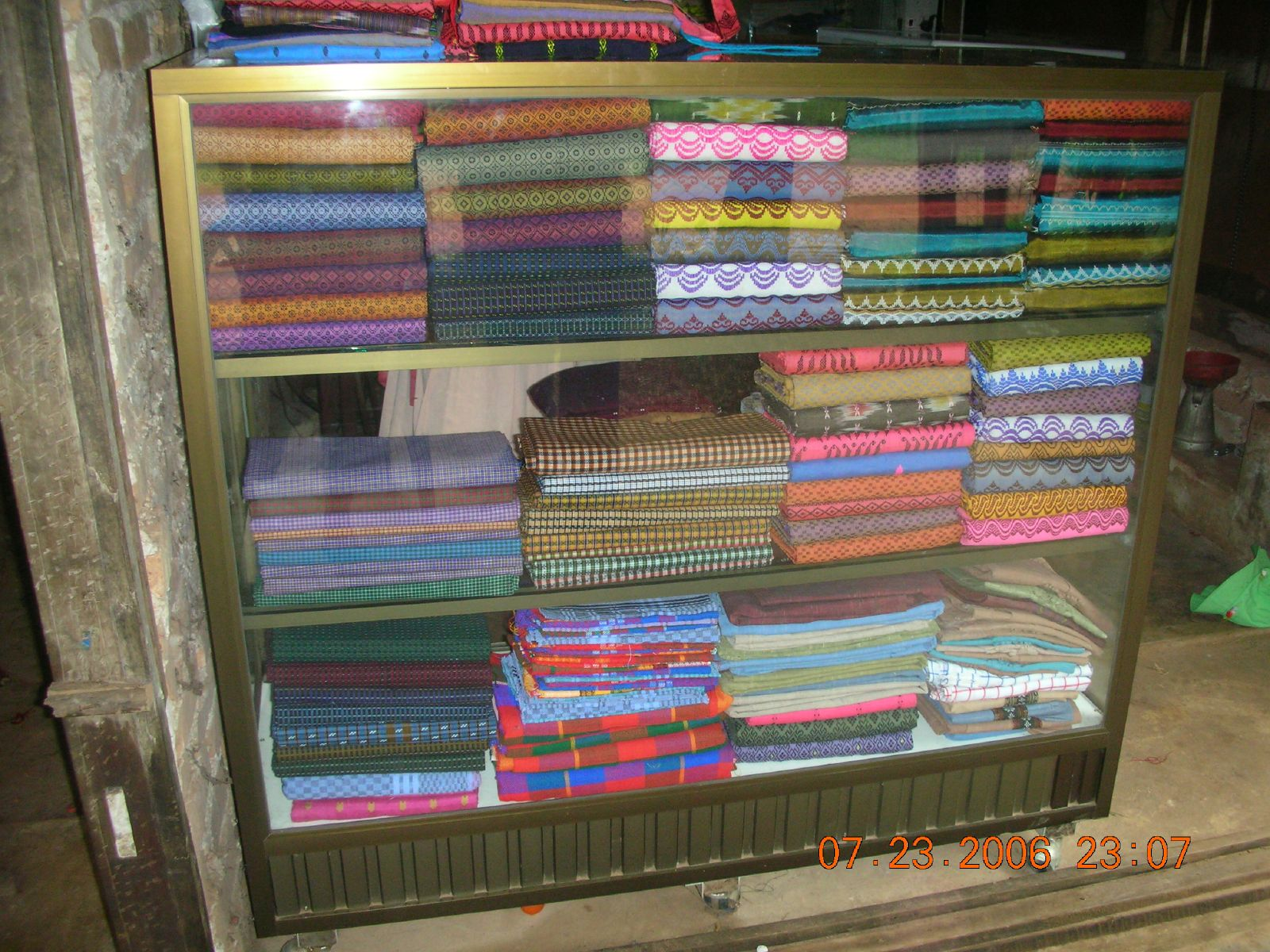 A longyi stand in Myanmar